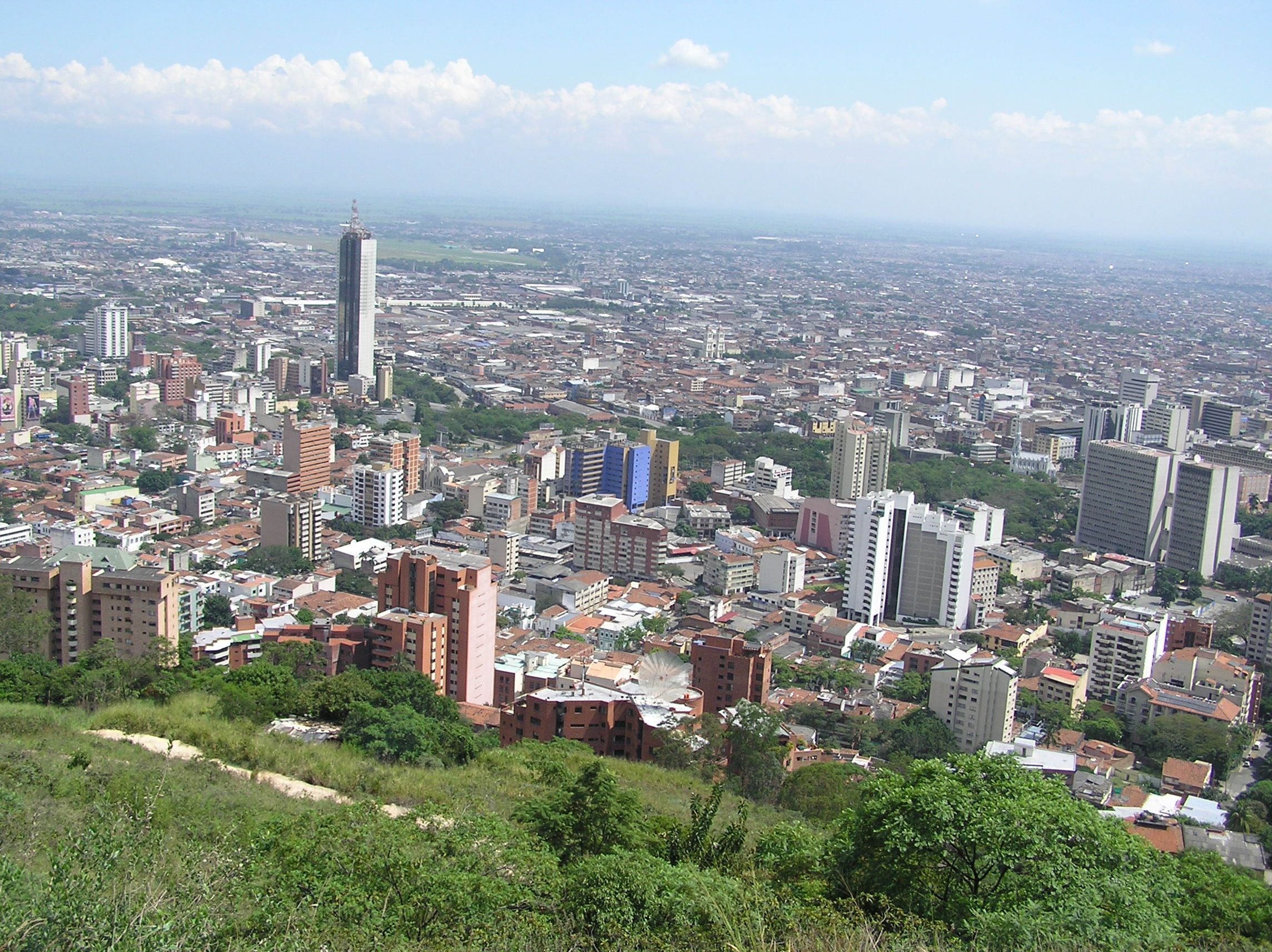 Cali's North Downtown from Cerro de las Tres Cruces Santiago de Cali - Colombia